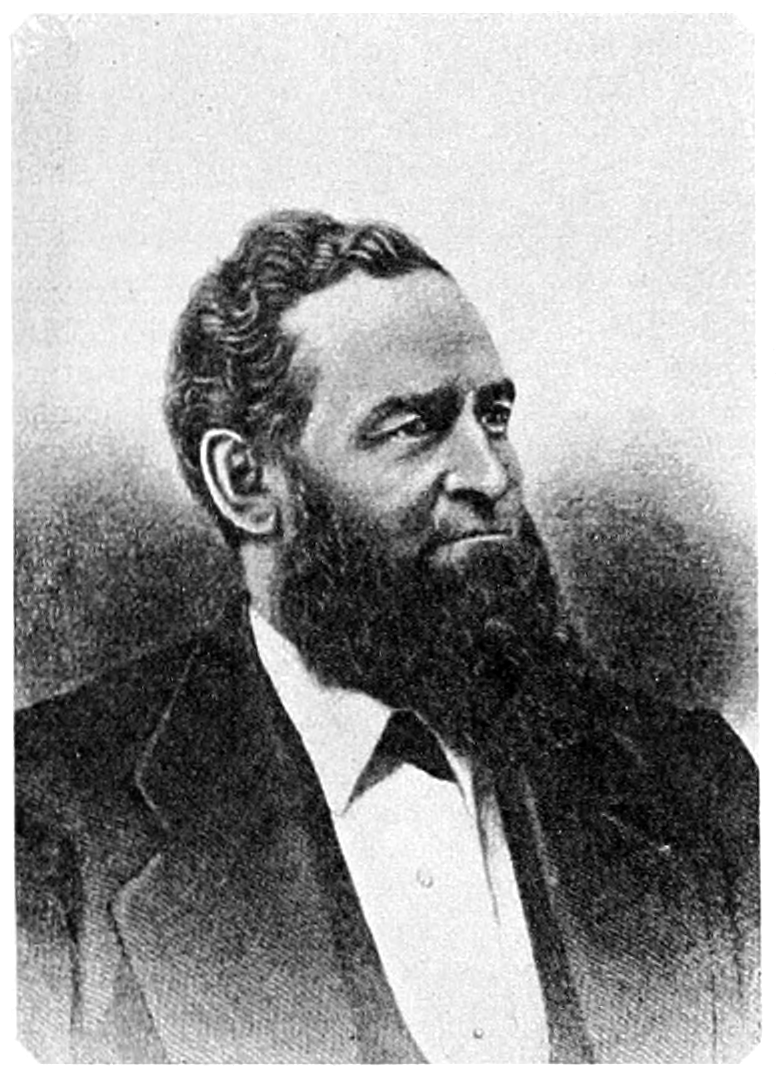 Rand, John Clark, One of a Thousand A series of Biographical Sketches of One Thousand Representative Men Resident in the Commonwealth of Massachusetts. pages 235-236, (1890).